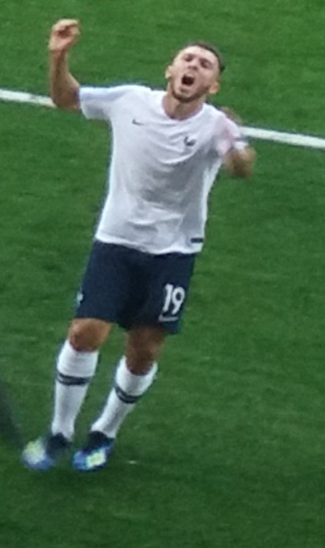 Amine Gouiri with French in 2018 UEFA European Under-19 Championship semifinal Italy-France in Vaasa, Finland.